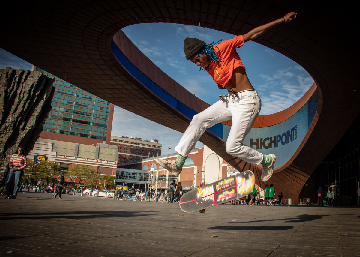 Lenna performs a 360 flip in front of the Barclays Center, Brooklyn, NY Photographed by: Erin Patrice O'Brien